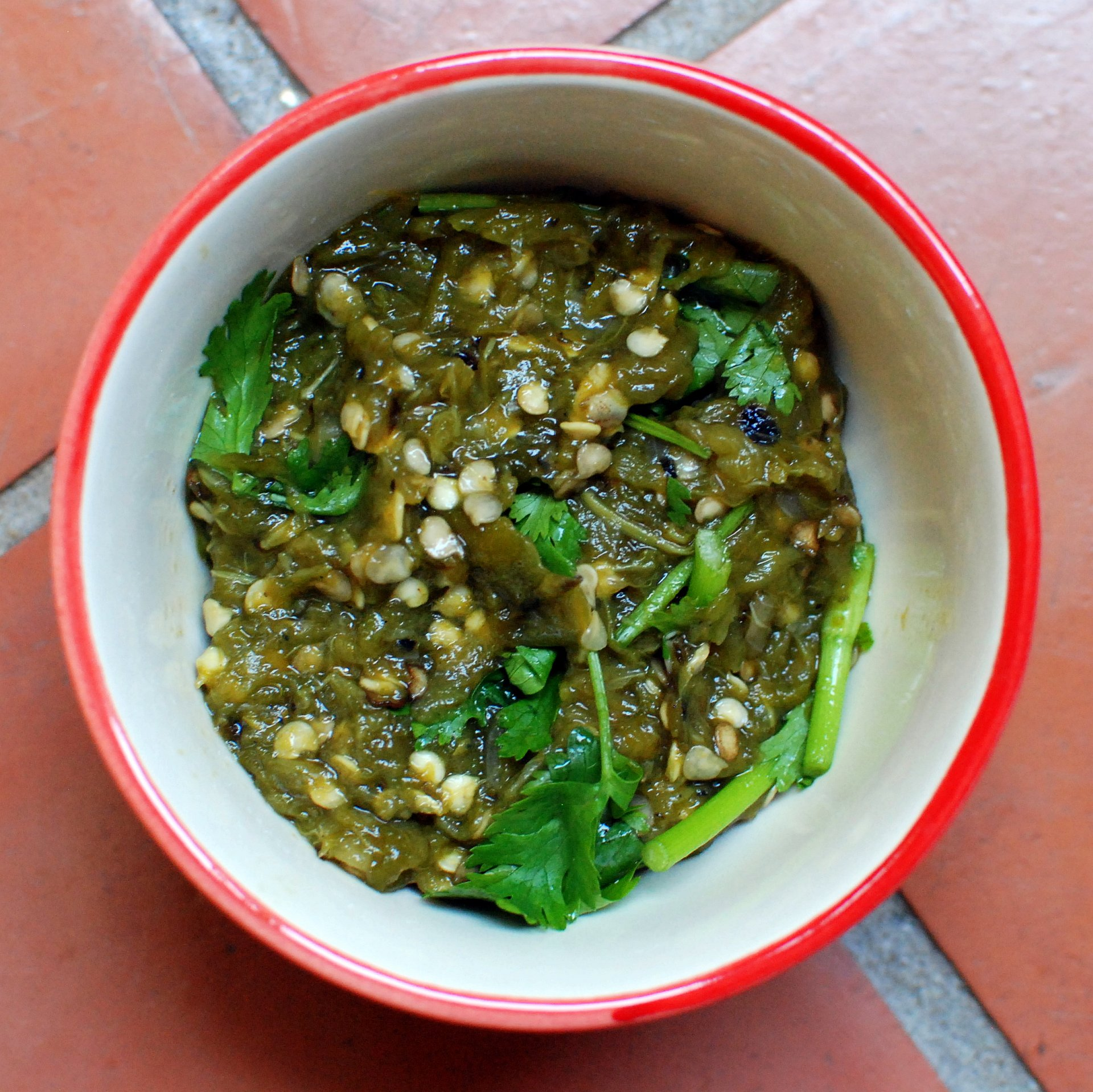 The northern Thai speciality Nam phrik num is a chilli dip made by pounding grilled young green chillies (called "phrik num" in northern Thailand), grilled shallots and grilled garlic in a mortar and pestle, mixing in lime juice, fish sauce and roughly shredded coriander leaves to taste. The dip is eaten with sticky rice (khao niao) and lightly steamed vegetables, certain tree leaves and flowers. The freshly made dip can be bought at almost every market in northern Thailand.